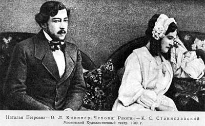 Constantin Stanislavski and Olga Knipper in the MAT production of Turgenev's A Month in the Country in 1909.